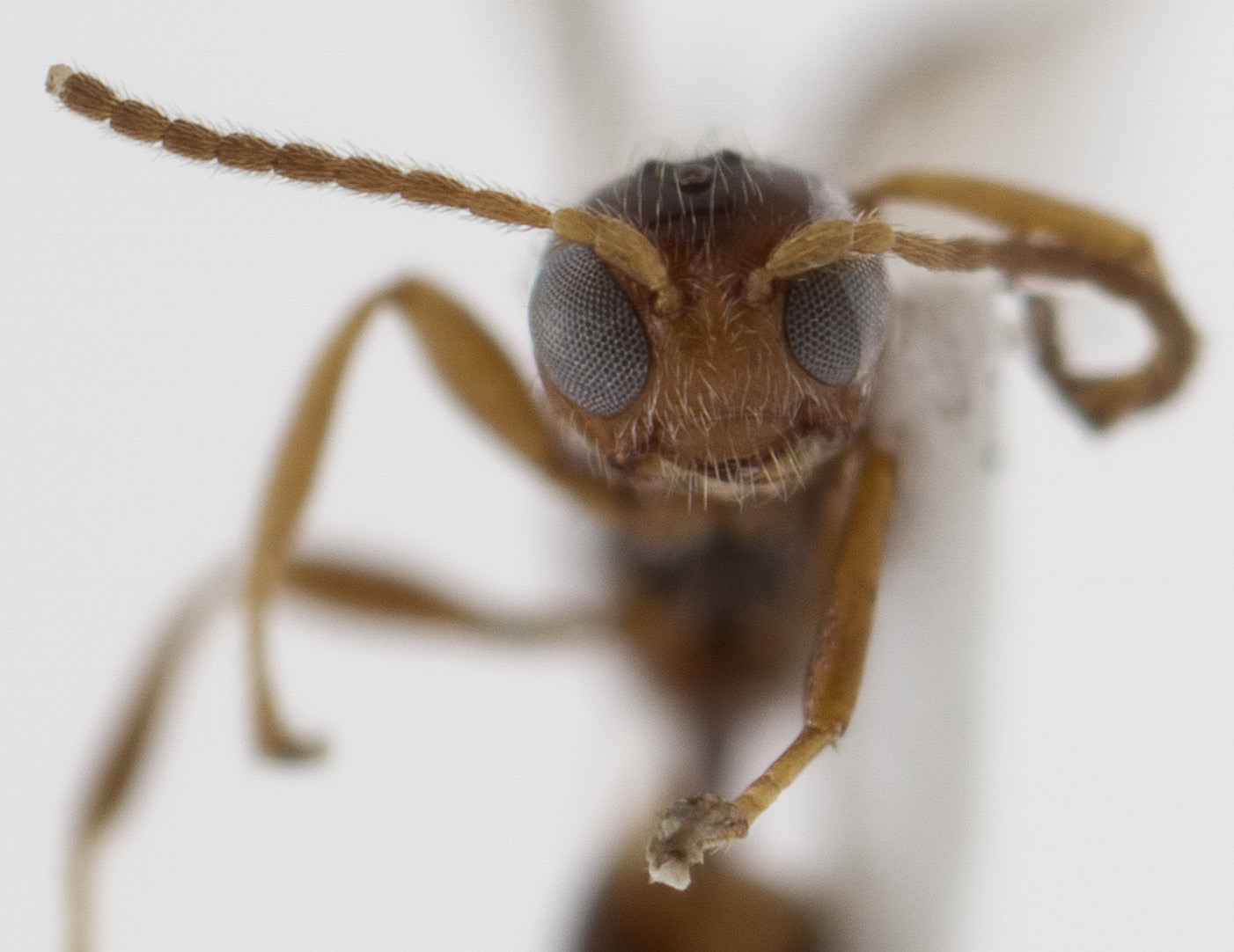 cf Aphidiinae. Specimen ID: 0380. Sex: Unknown. Size: 2.5 mm. Collection Location: USA, WI, Bayfield County. Apostle Islands National Lake Shore. Boreal woodland along Mawike Road. WGS84 46.8874N/-91.0408W. Plot: AI-4. Collection Date: 1-Aug-2014. Collector: Brick M. Fevold. Ichneumonoidea; Braconidae; cf. Aphidiinae. Very reduced wing venation. Close-up of face.